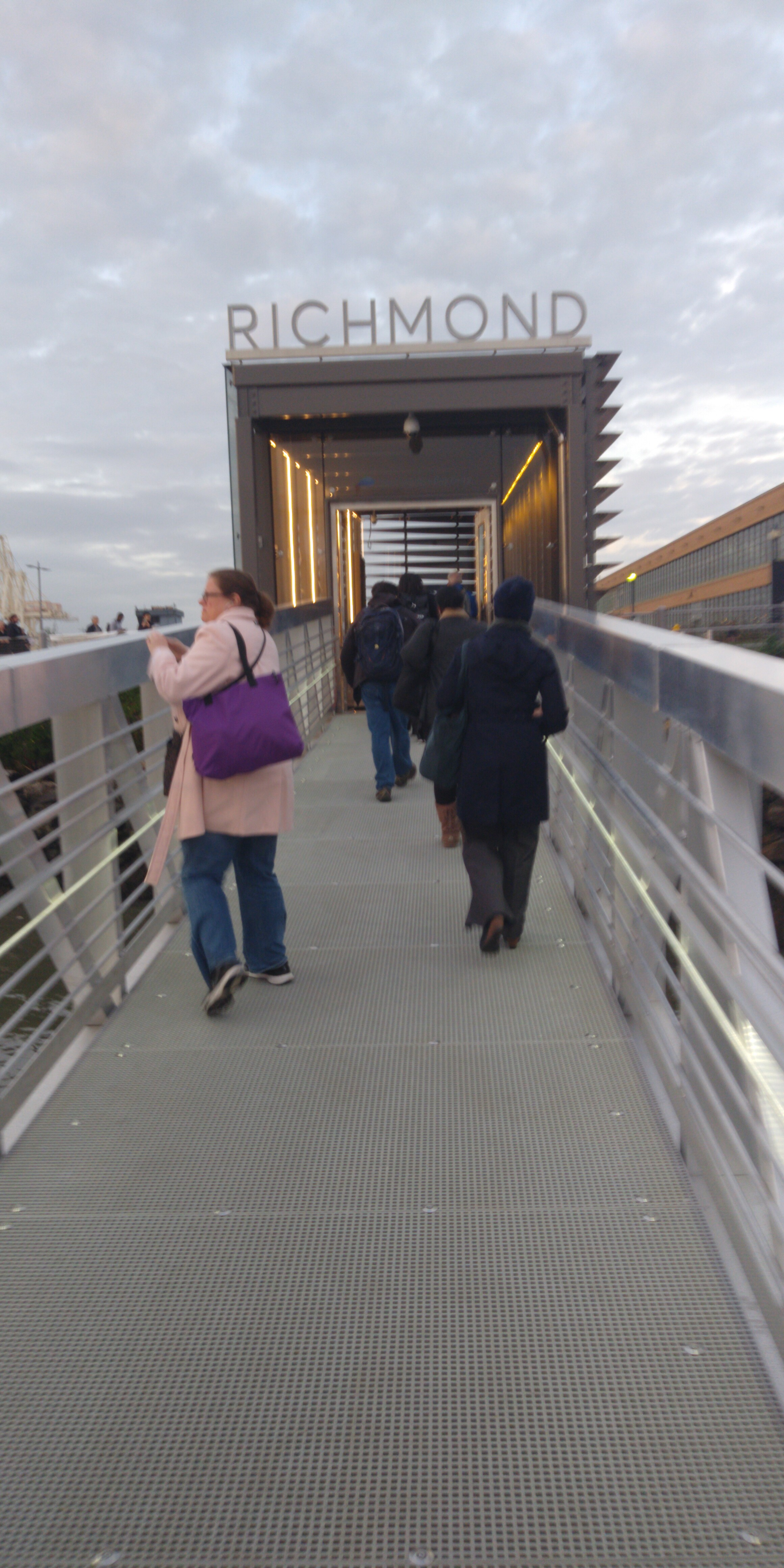 Richmond ferry terminal